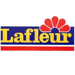 Logo of the Lafleur brand in 1984.